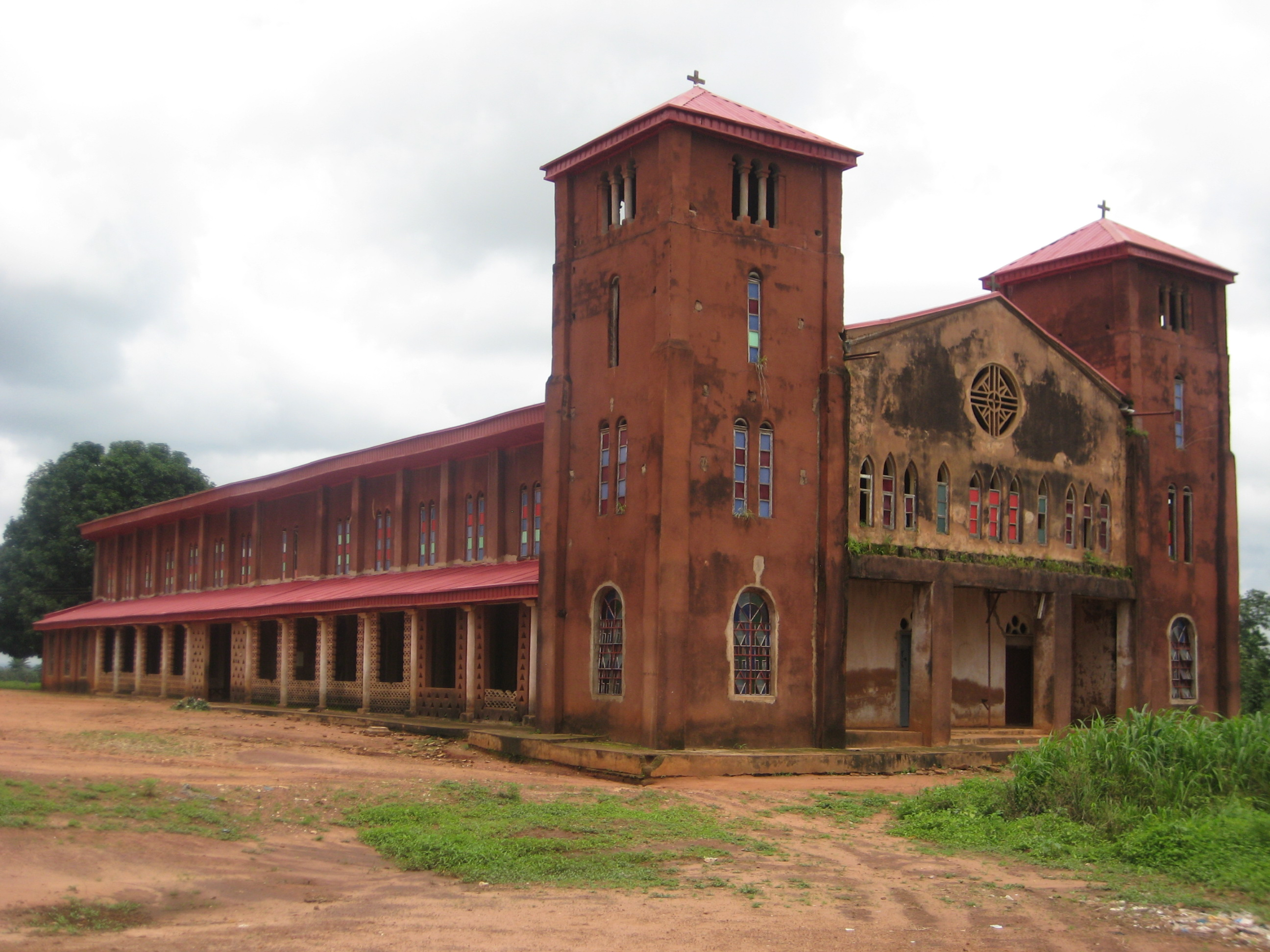 Holy Cross Catholic Parish Umulokpa built in 1923. Formerly known as St. Theresa's Catholic Church Umulokpa.